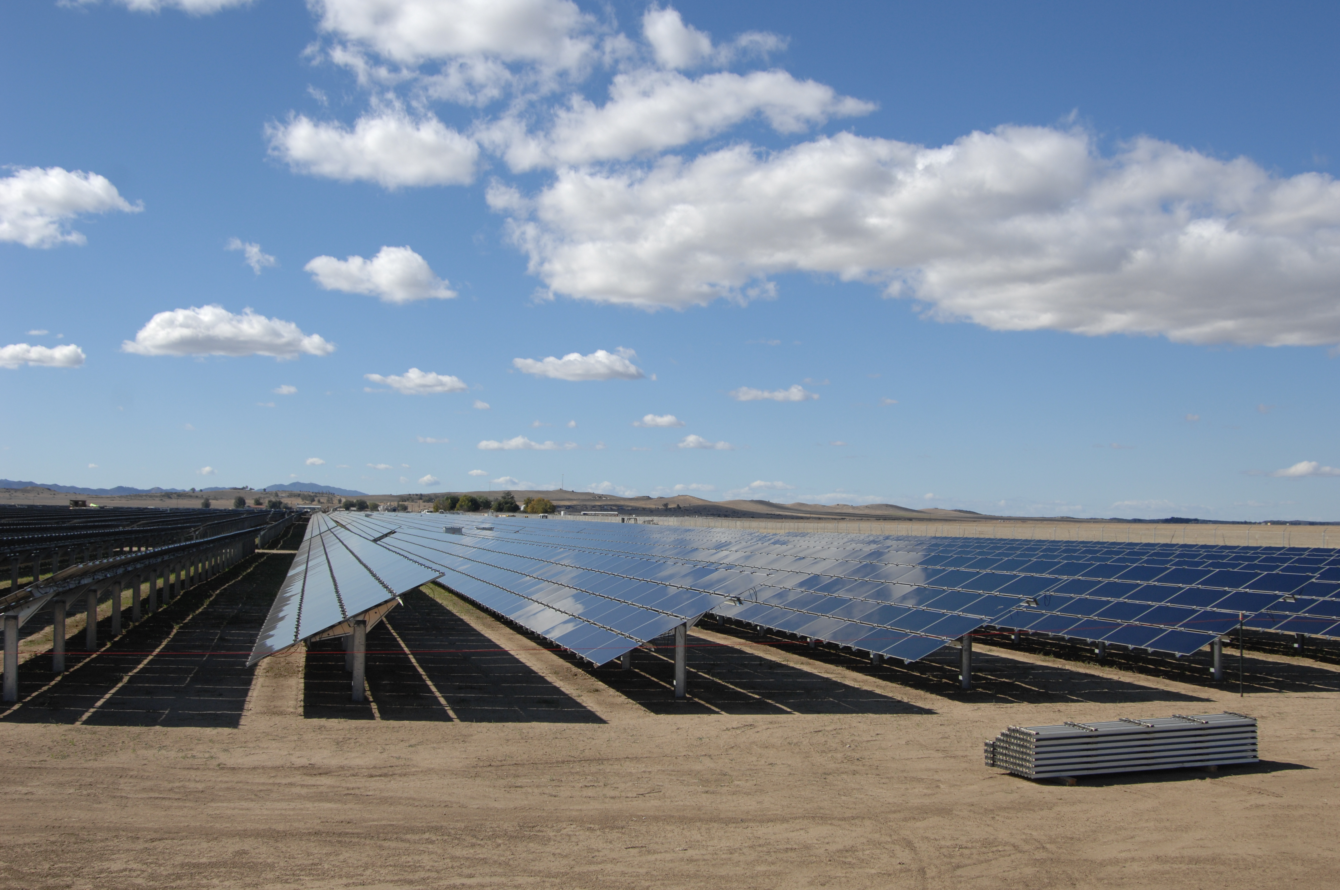 Photo Credit: Sarah Swenty/USFWS